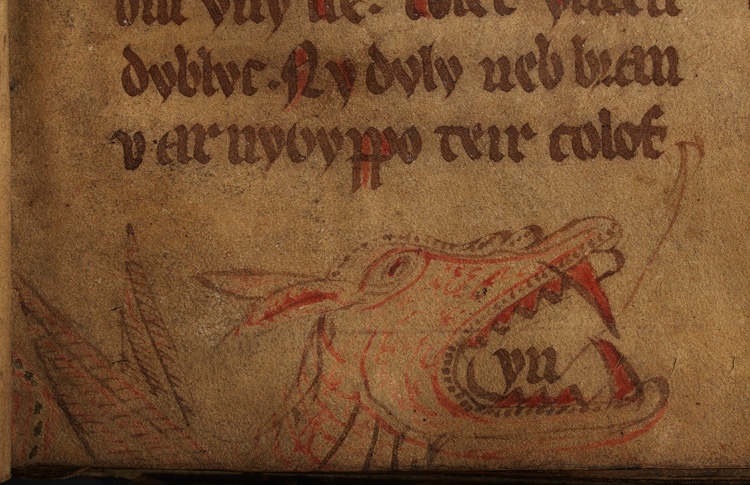 A Welsh text of the Laws of Hywel Dda, including a number of illustrations. The manuscript contains 115 folios made from parchment, and the wooden cover dates from the Middle Ages.